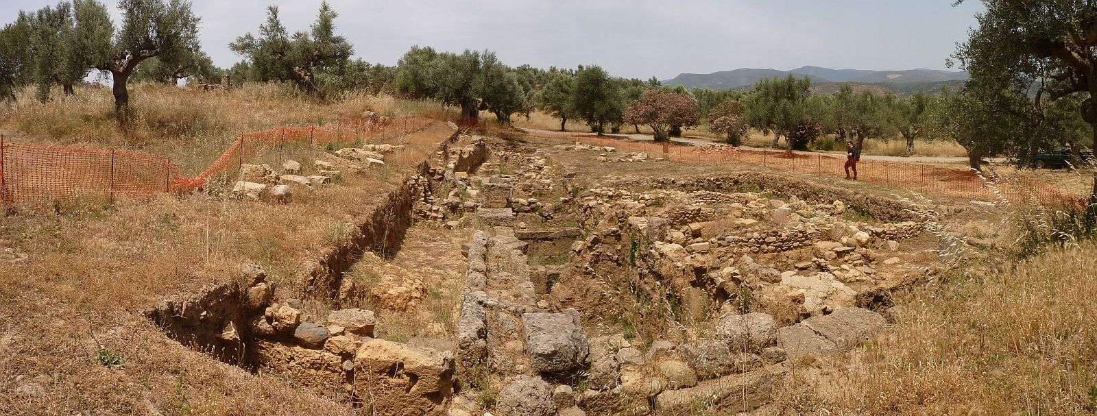 Sparta (Doric Greek: Σπάρτα, Spártā; Attic Greek: Σπάρτη, Spártē), or Lacedaemon, was a prominent city-state in ancient Greece, situated on the banks of the Eurotas River in Laconia, in south-eastern Peloponnese. You can use the images for free. But a link to - I would be happy :)